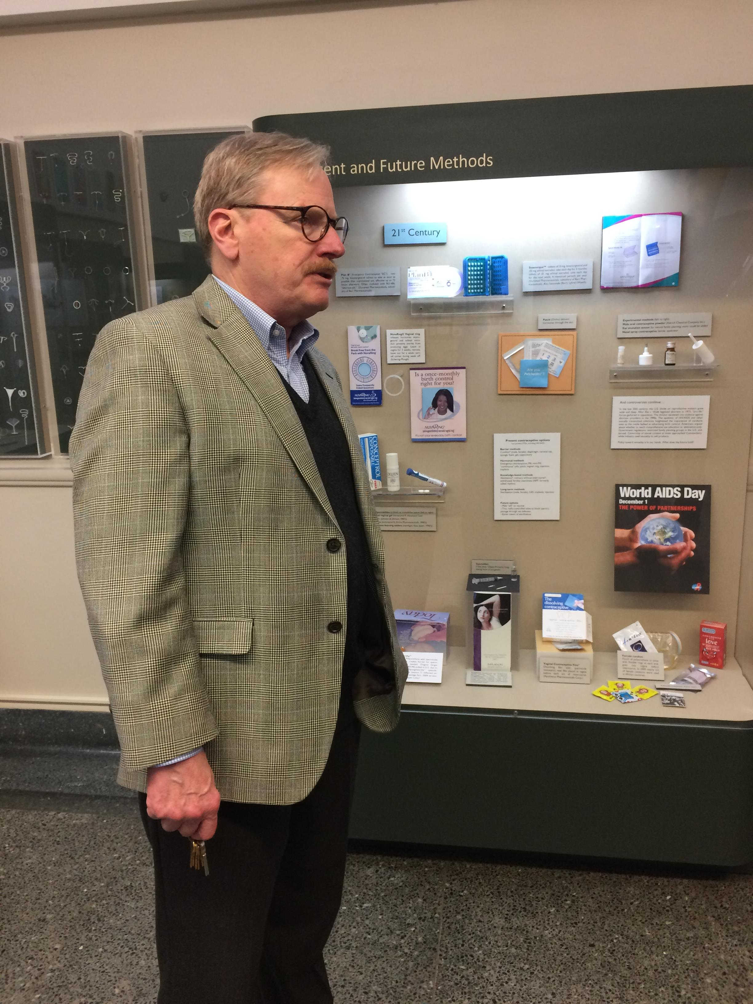 James M. Edmonson, curator of the Dittrick Museum of Medical History